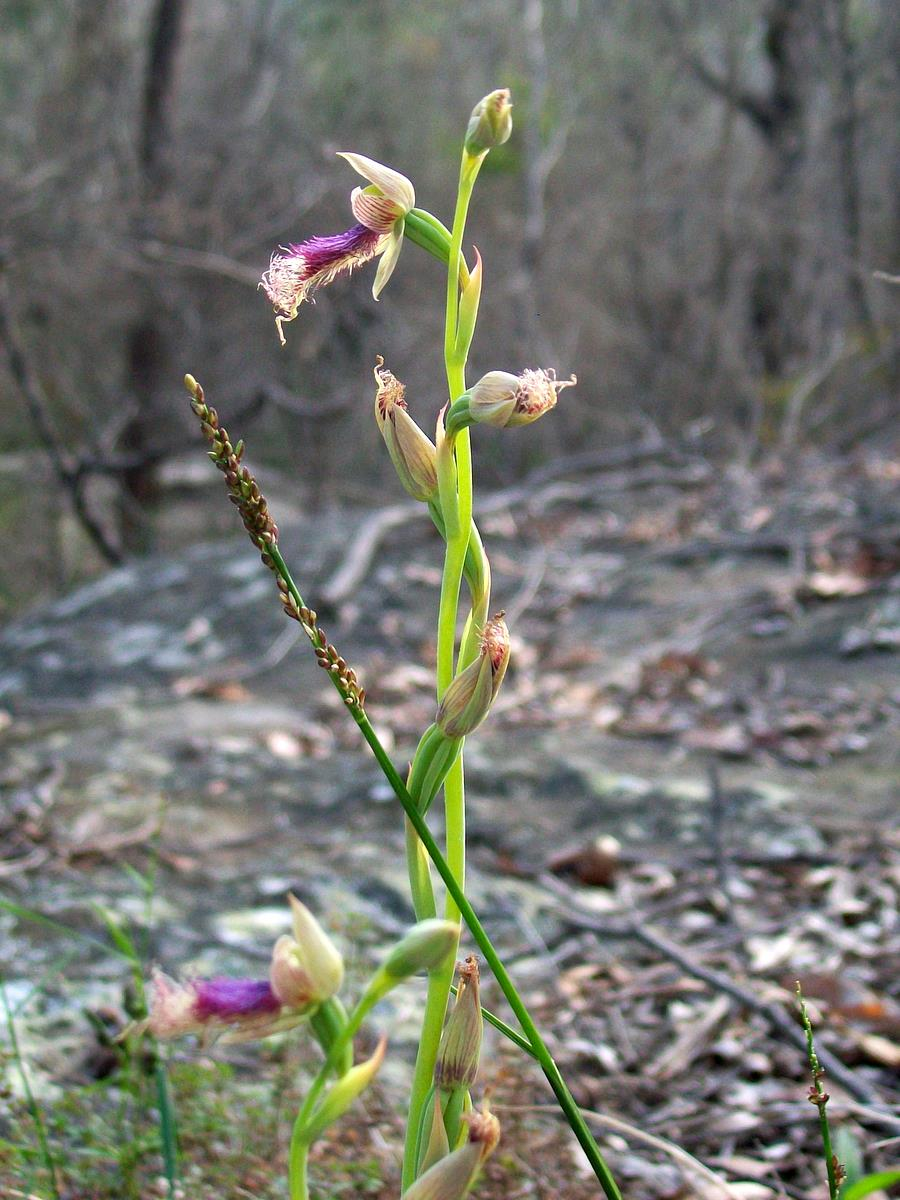 Bearded Orchid, probably Calochilus robertsonii growing on almost no soil, on Hawkesbury Sandstone, at West Pymble, Australia